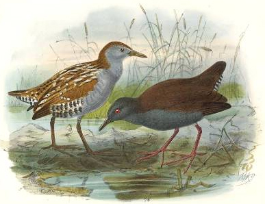 On left: Marsh Crake or Baillon's Crake, Porzana pusilla affinis. On right: Spotless Crake Porzana tabuensis plumbea.Original caption: “Ortygometra affinis. Ortygometra tabuensis.”